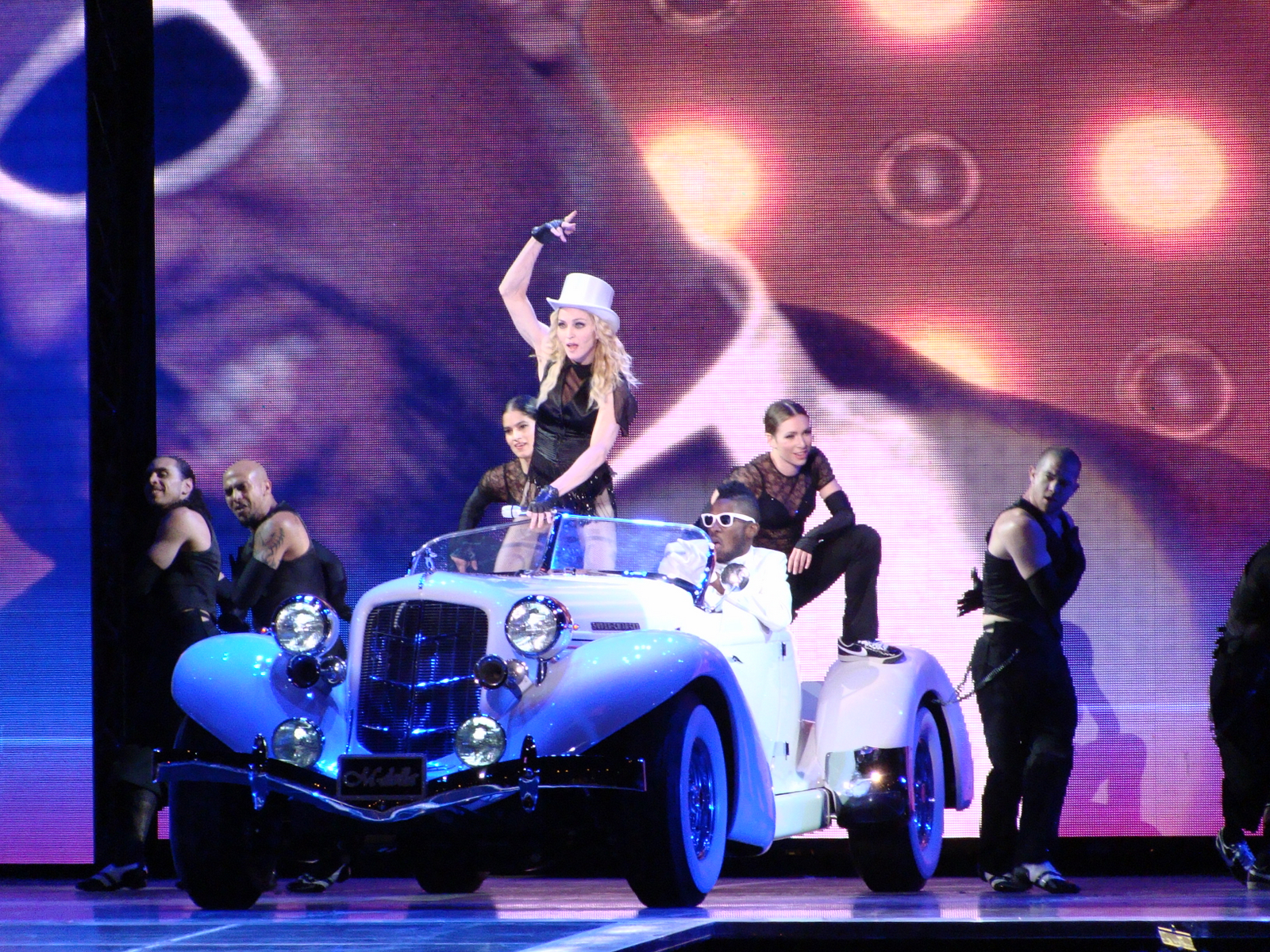 Madonna Day